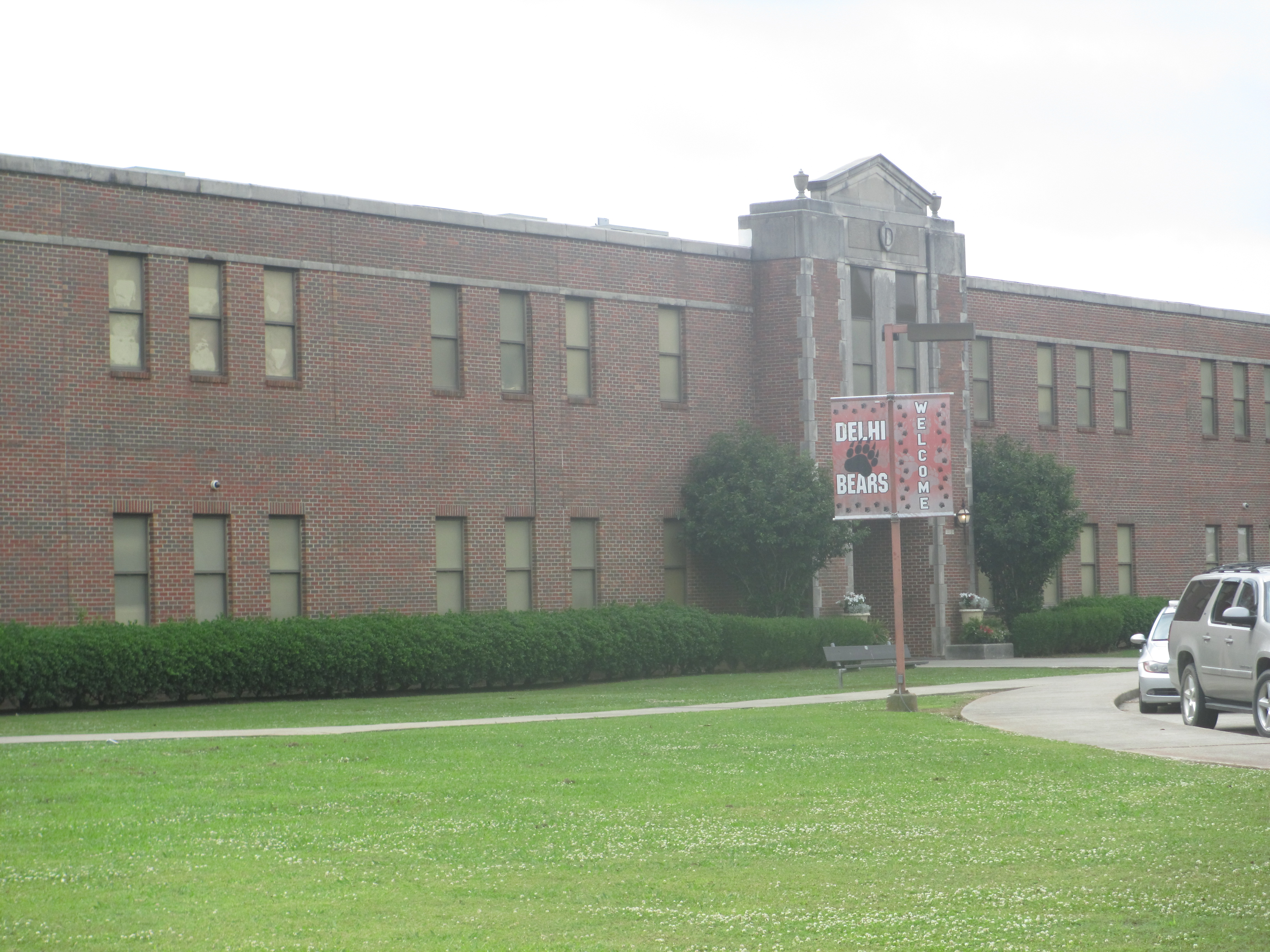 I took photo of Delhi High School in Delhi, LA, with Canon camera.